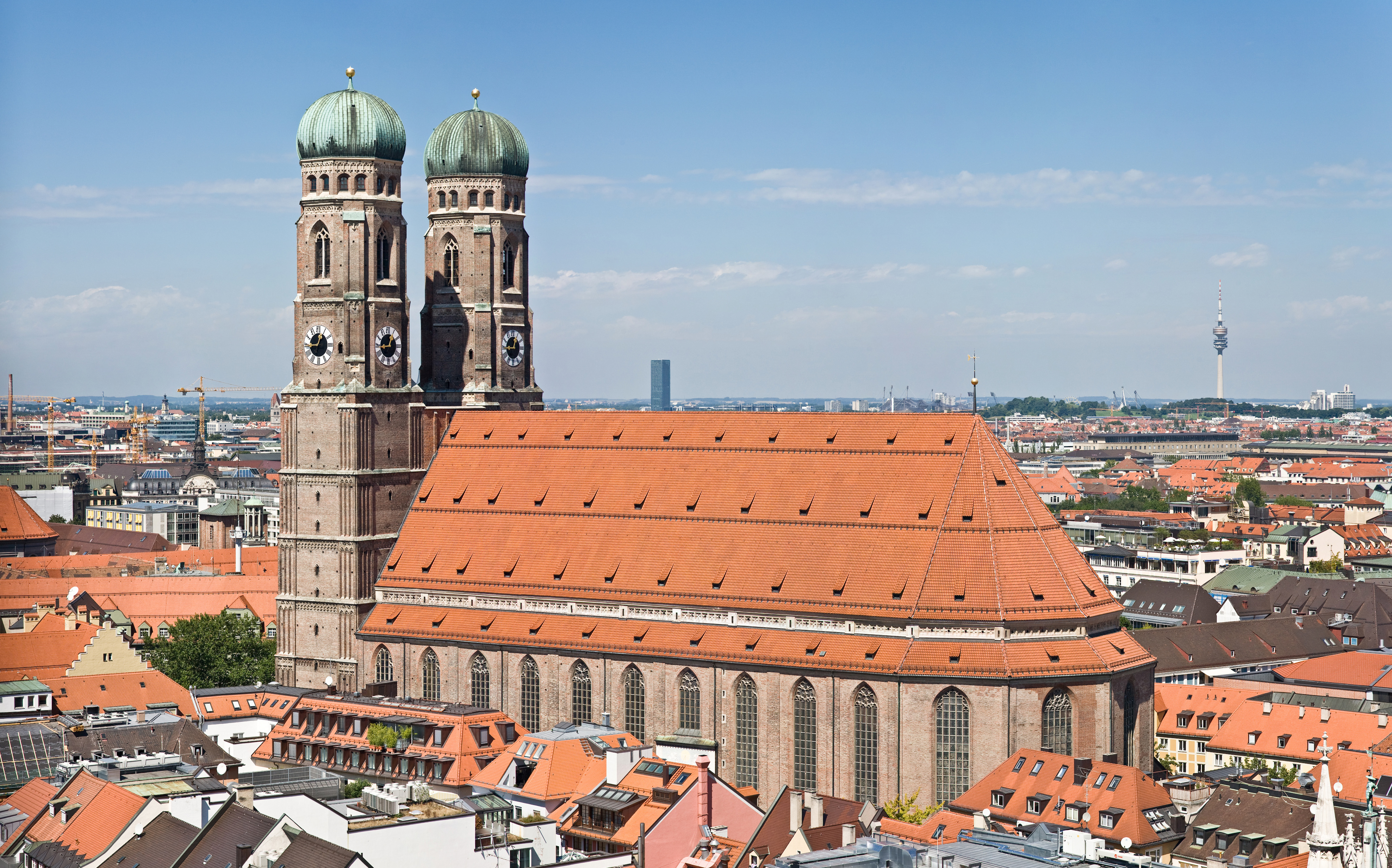 Frauenkirche (Church of Our Blessed Lady) in Munich, Germany, as viewed from the tower of Peter's Church. Taken by myself with a Canon 5D and 24-105mm f/4L IS lens.